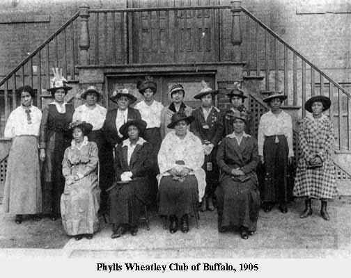 Phyllis Wheatley Club, Buffalo, New York in 1905. Photo shows, seated (left to right): Mrs. Powell, unknown, Mrs. Saunders, Penolia McAden. Standing (left to right): unknown, Bette S. Anderson, Amelia Grace Anderson, Mary B. Talbert, Frances Nash, unknown, unknown, Theresa G. Anderson, Beatrice Chase, and Mrs. Chase.